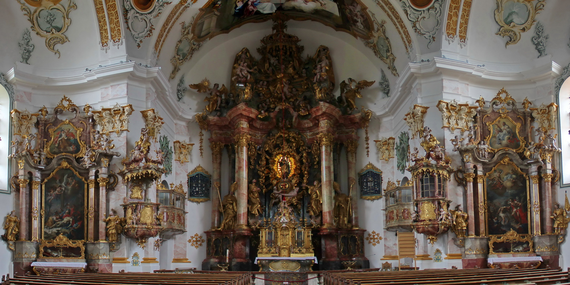 Church of St. Mary Native nameWallfahrtskirche Mariä HimmelfahrtLocationMarienberg, Upper Bavaria, GermanyCoordinates48° 08′ 32.66″ N, 12° 47′ 23.65″ E